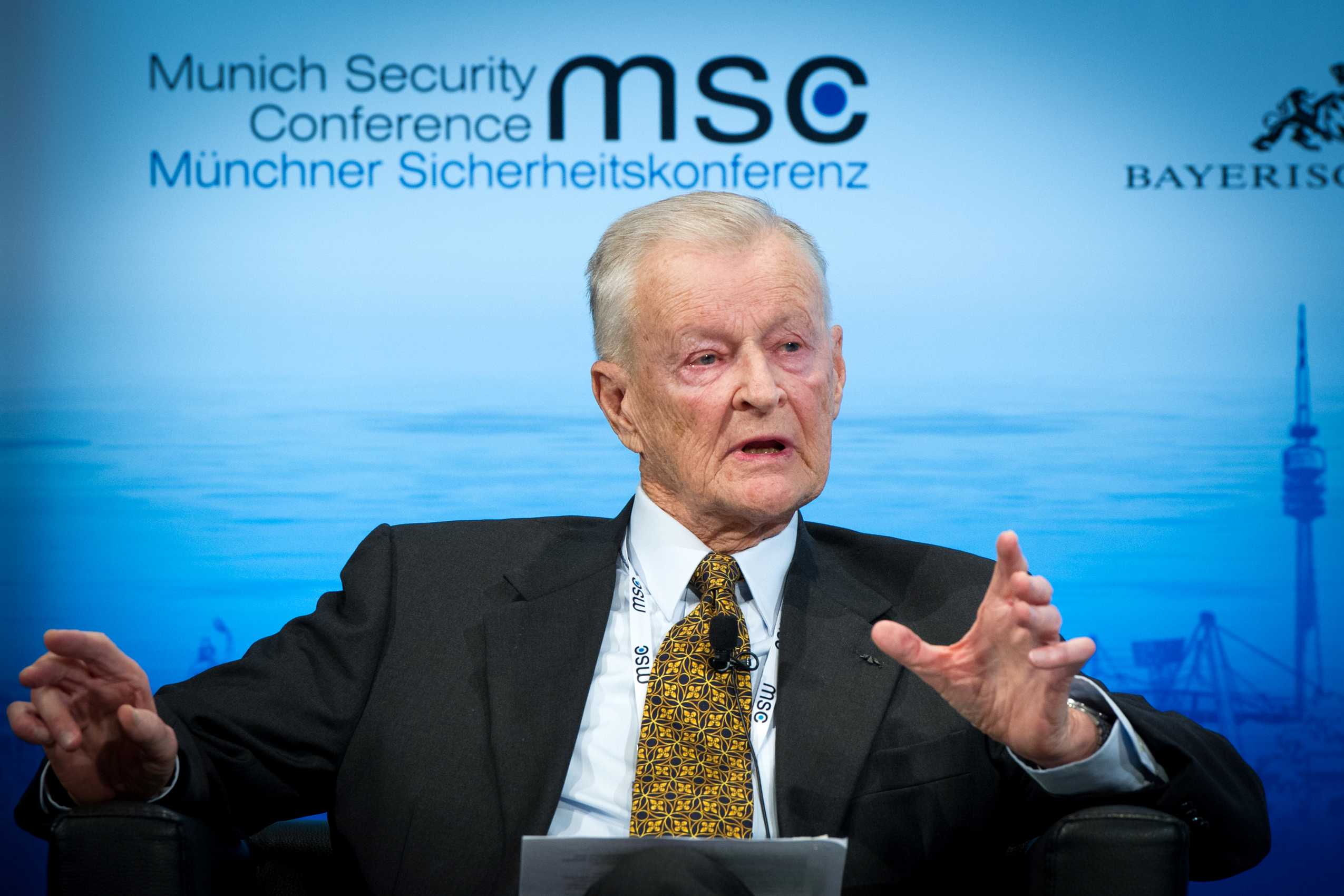 50th Munich Security Conference 2014: Zbigniew Brzezinski: Zbigniew Brzezinski (Former United States National Security Advisor; Counselor and Trustee, Center for Strategic and International Studies)